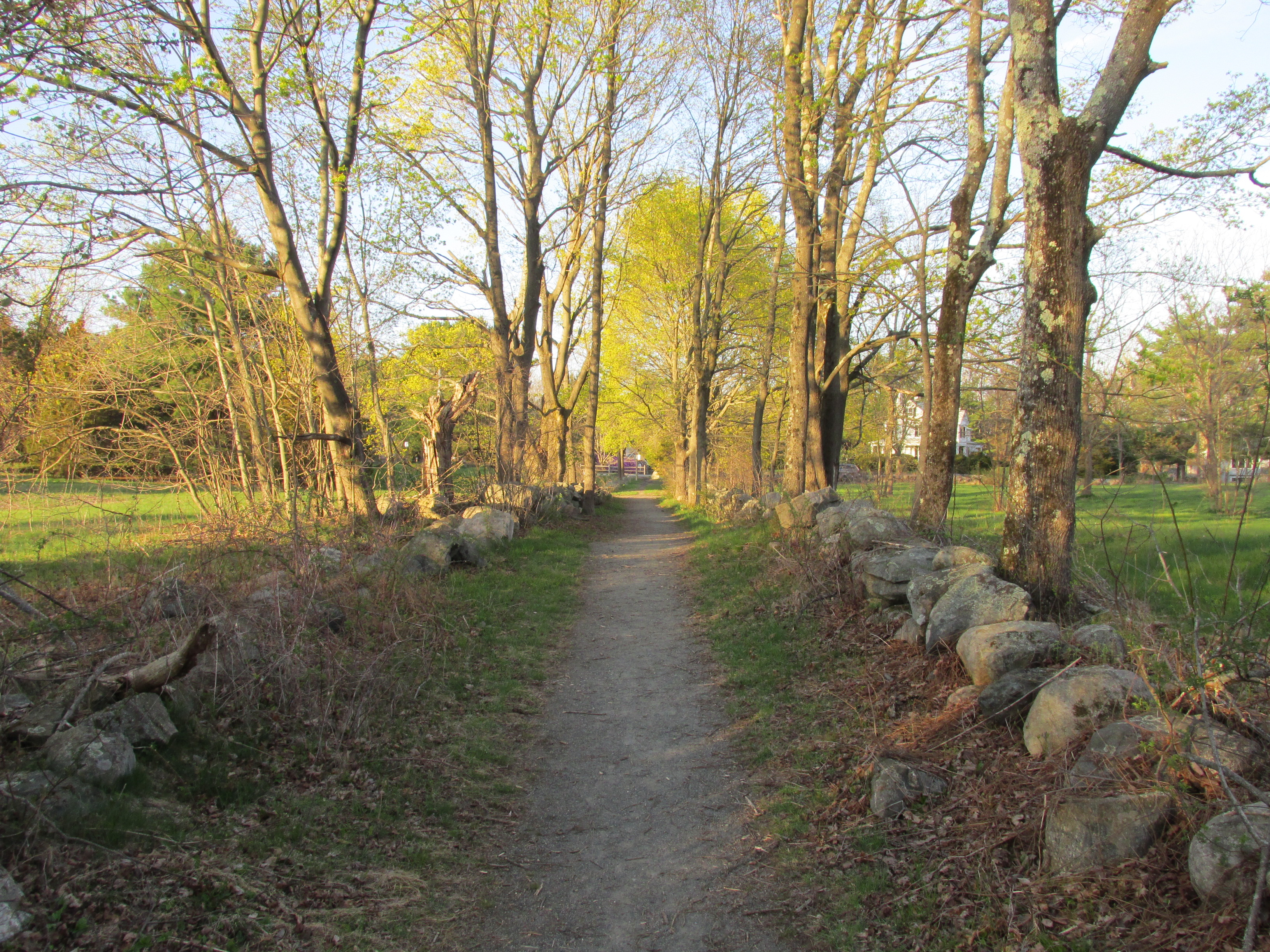 Trail off North St, Willards Woods, Lexington Massachusetts